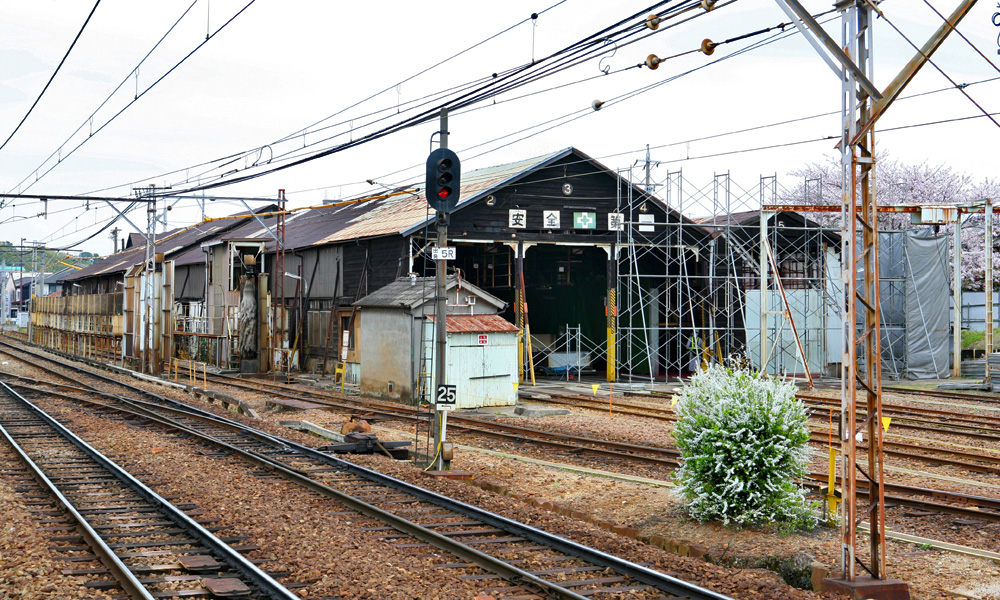 Ruins of Meitetsu Kitayama inspection department